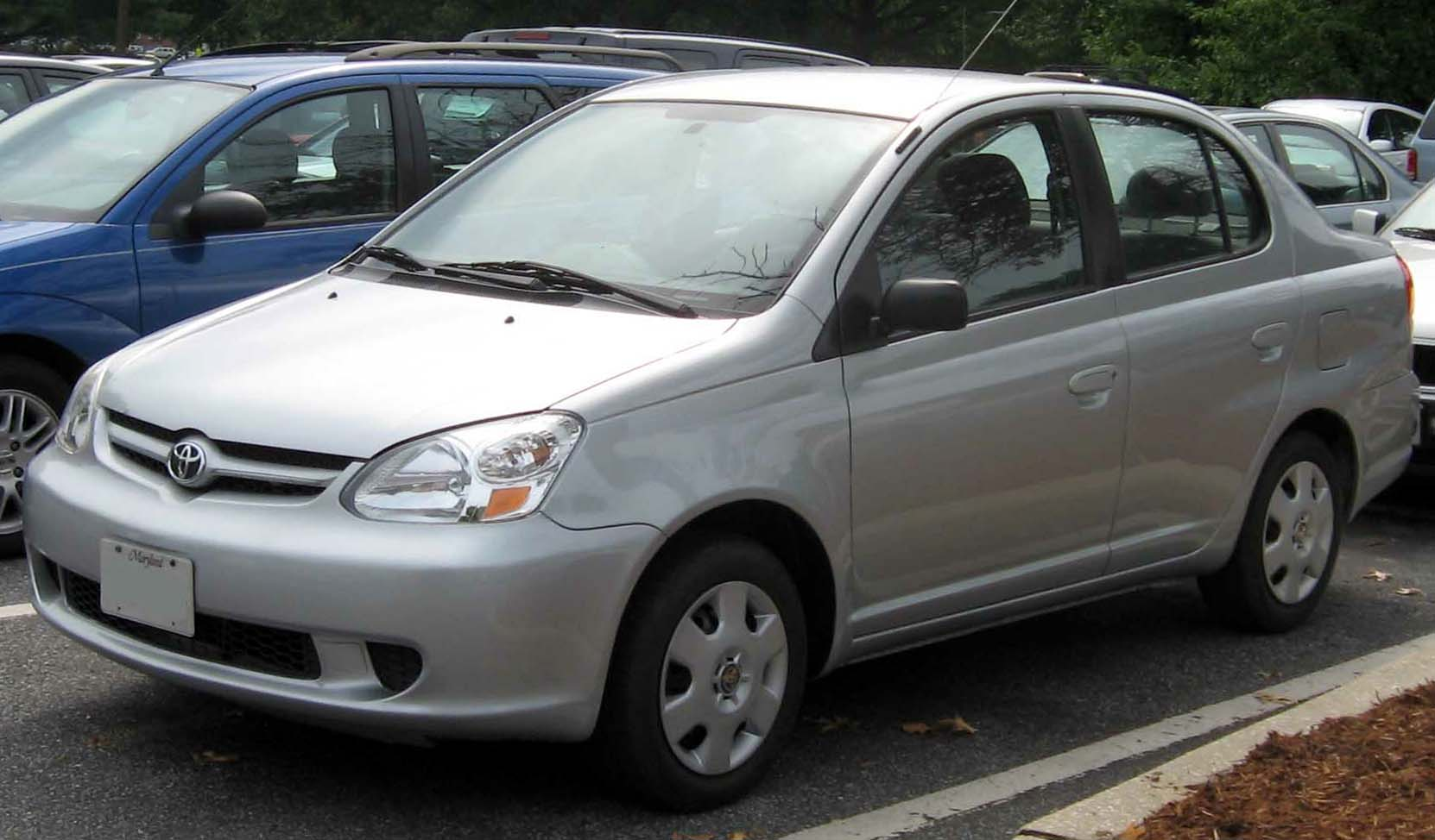 2003-2005 Toyota Echo photographed in College Park, Maryland, USA.